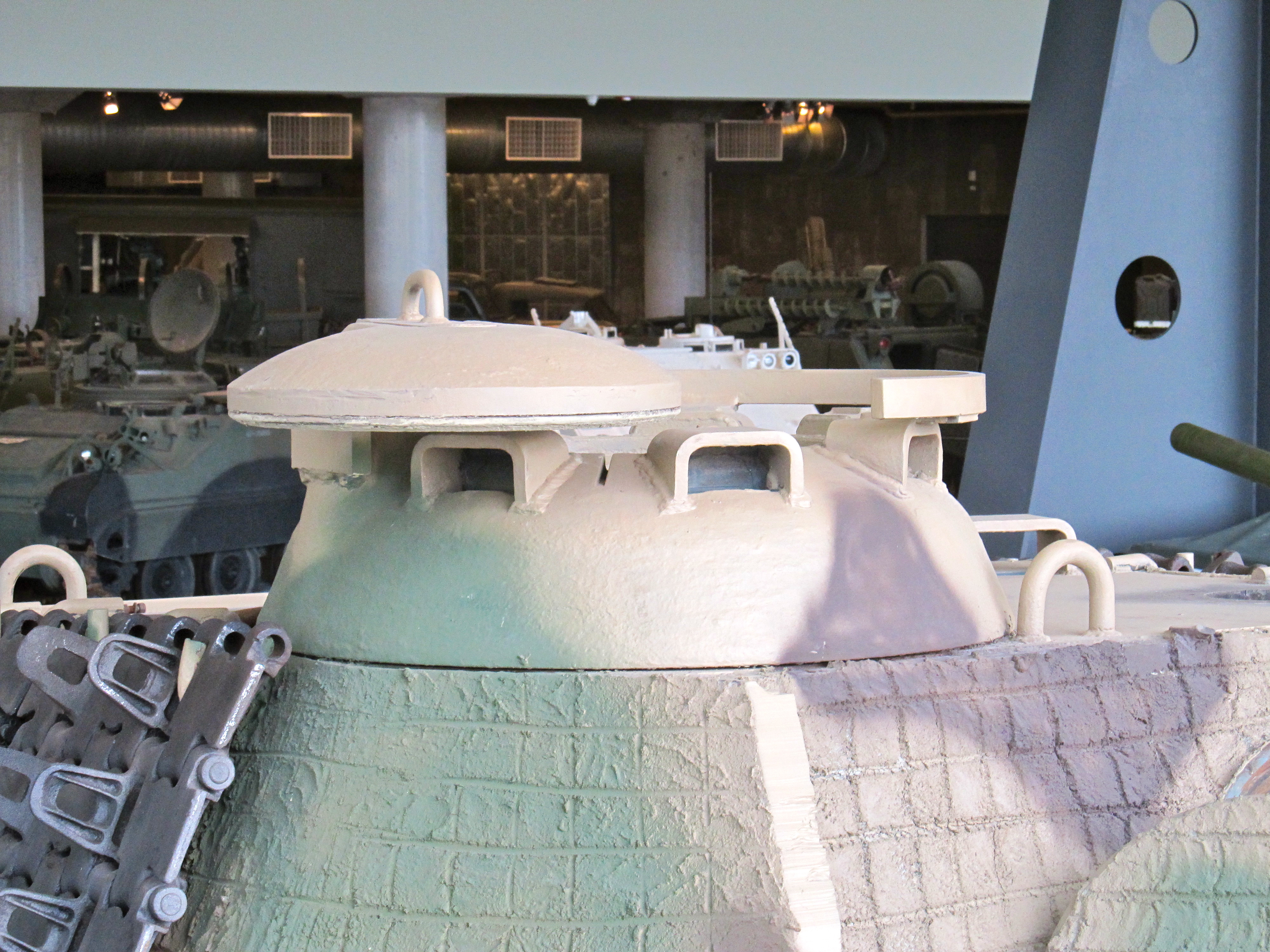 Panther tank in Canadian War Museum, Ottawa.